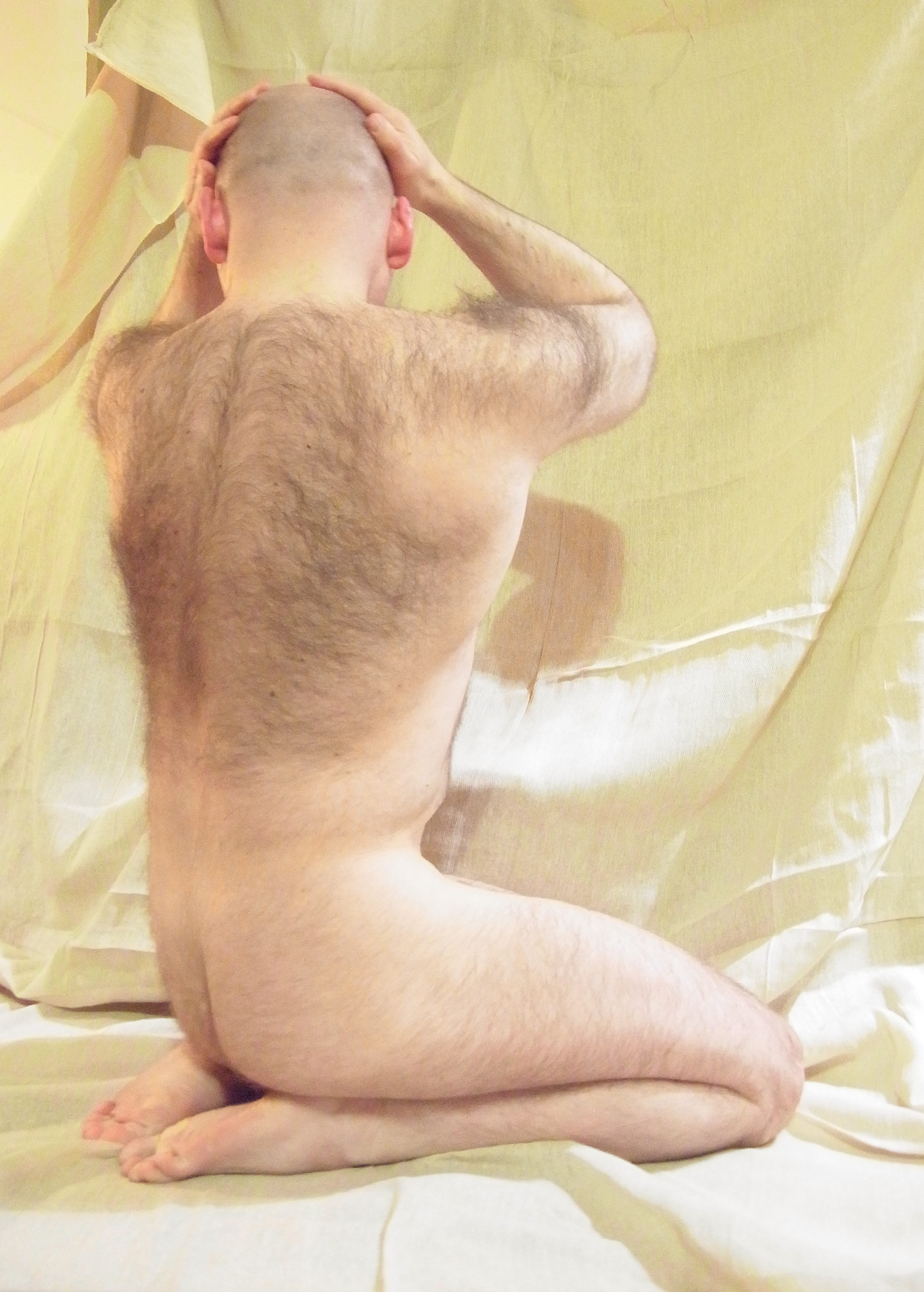 Male subject posing in a bachelorette party art class. Kneeling, turning away.